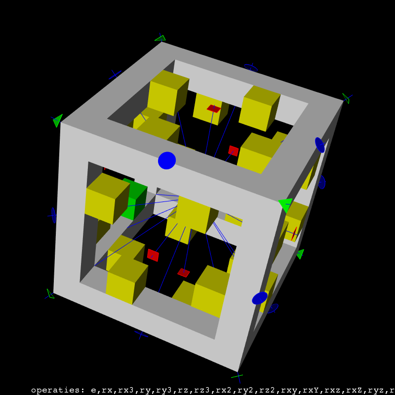 Outputfigure , realised with VTK